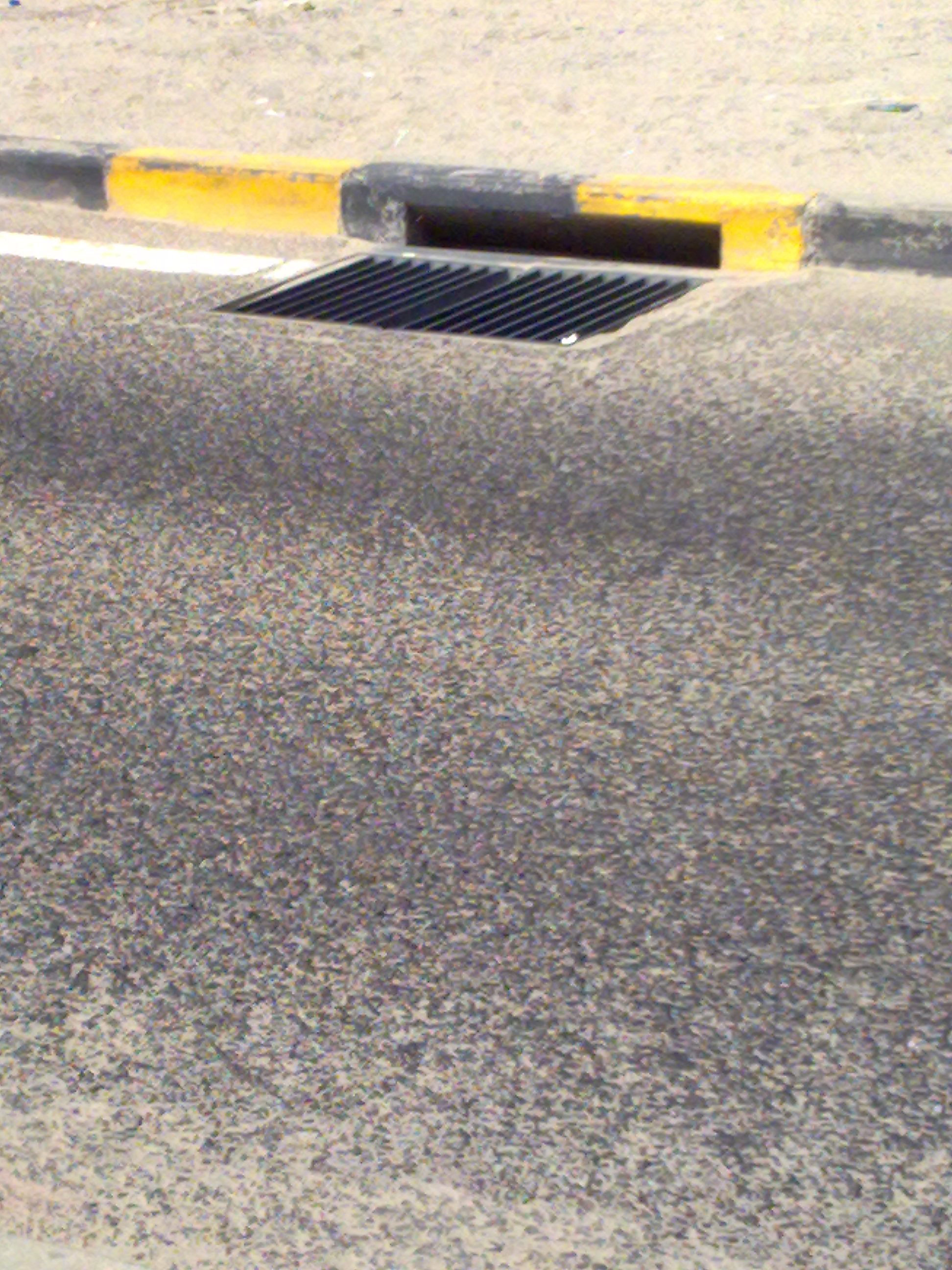 photos by irvin calicut This media file is uploaded with Malayalam loves Wikimedia event - 3.